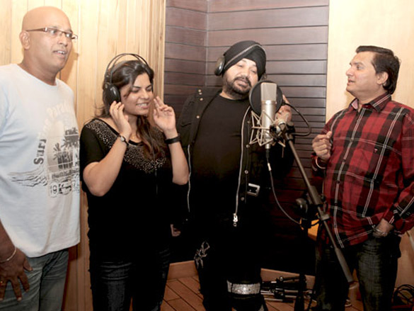 Song recording for the 2012 Bollywood film Chaalis Chauraasi. (l-r) Film's director Hriday Shetty, singer Mamta Sharma, singer Daler Mehndi and music director Lalit Pandit.